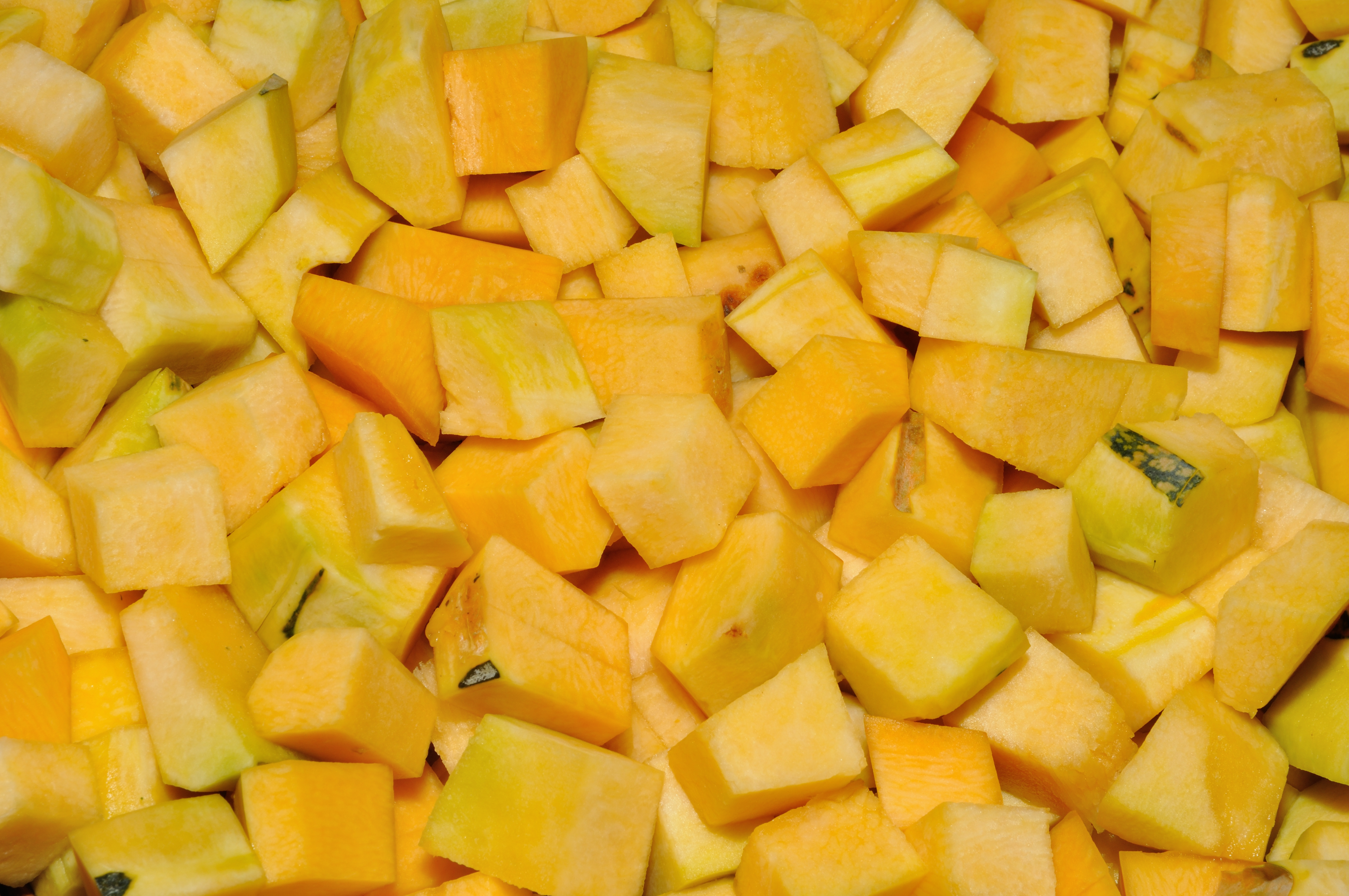 Photographed in Kolkata, India.